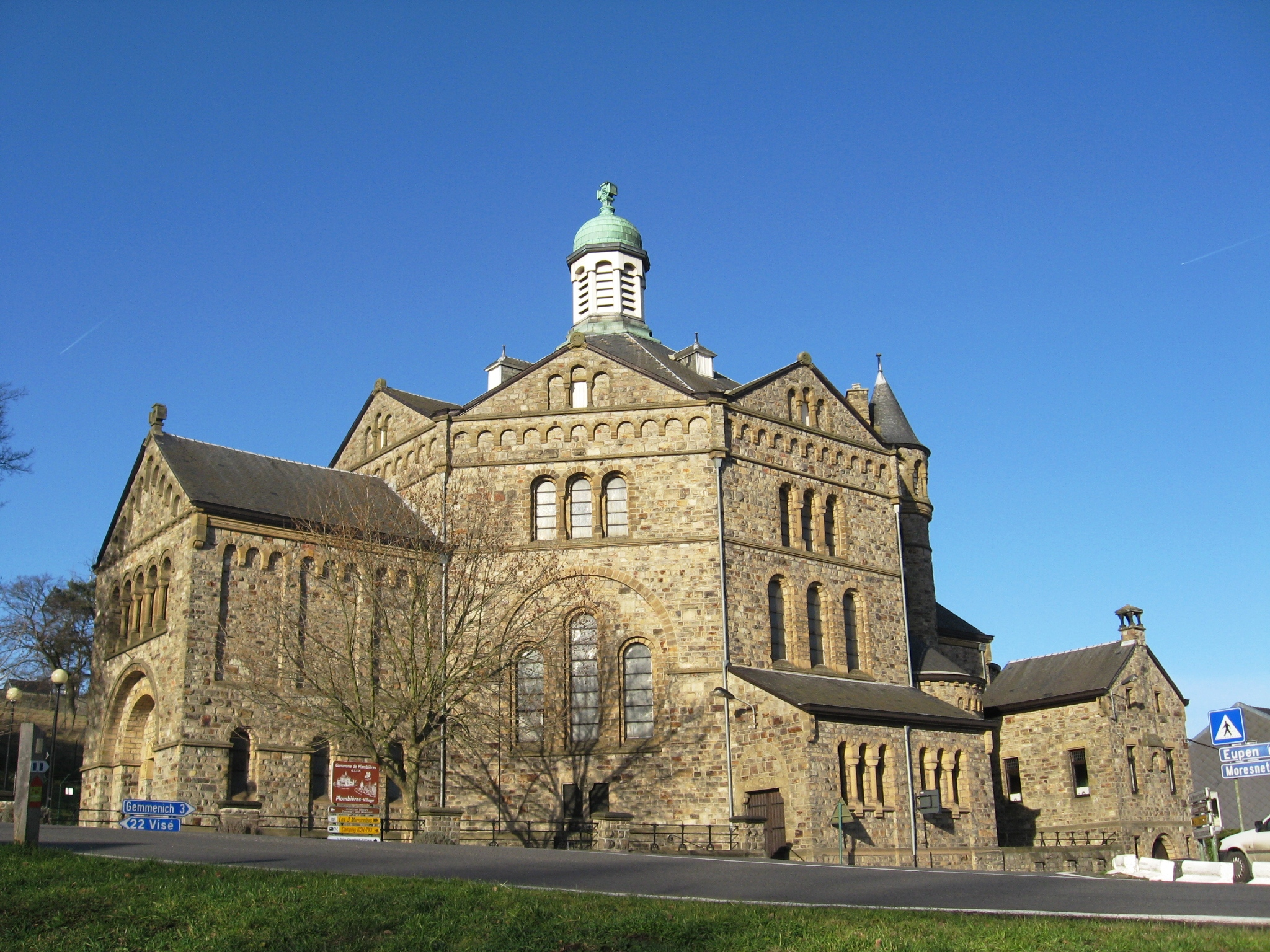 Church of the Assumption of Our Lady in Plombières, Liège, Belgium